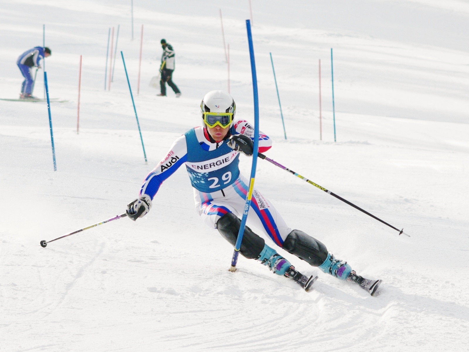 French alpine skier Steven Théolier in the first run of the FIS Slalom in Hinterstoder, Austria, on 10 March 2010.